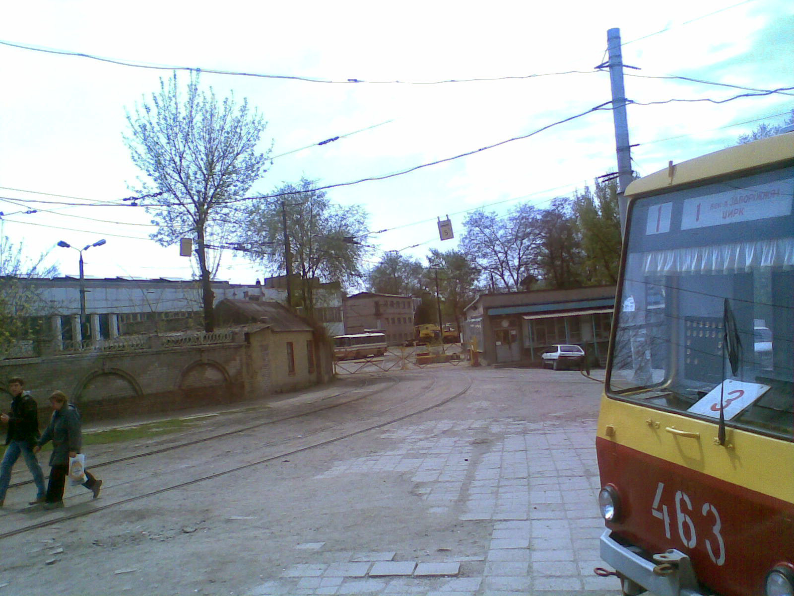 Trams in Zaporizhzhya